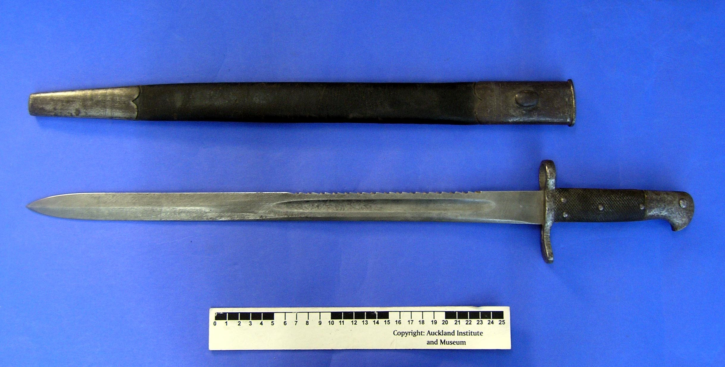 British Pattern 1875 Artillery bayonet for Snider (with scabbard) Snider saw-backed bayonet; 1st type; bar on band maker- WR Kirschbaum and Cie, Solingen, Germany, 1876 markings- Birmingham proofs (crown) - B - 2; maker's name and trademark (WR Kirschbaum and Cie - helmet); WD and sold out of service marks- (arrows and) WD; serial number 741 on hilt